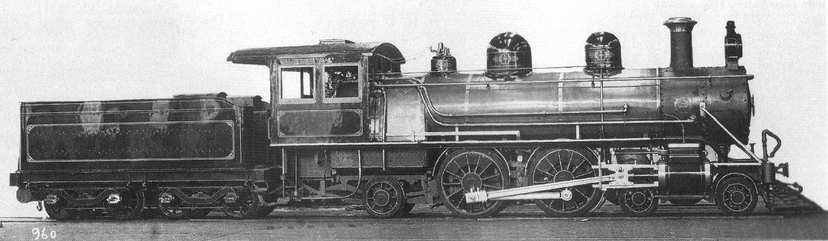 Cape Government Railway 4th Class No 295-300, later SAR Class O4 No 295-300, the first and only Atlantic class in South Africa. Builders photo (Baldwin Locomotive Works )